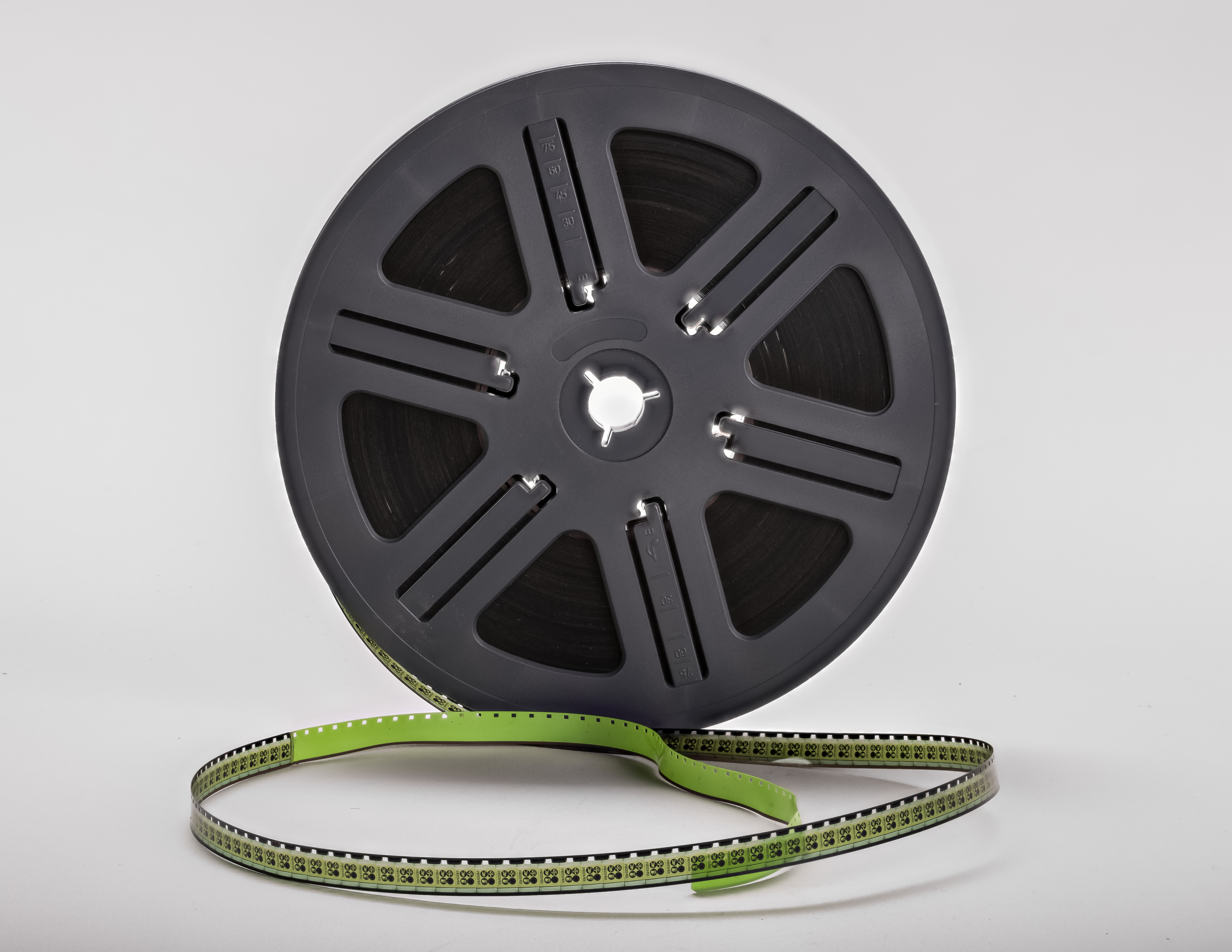 A developped Super 8 mm film with sound track and green start section on a spoolFocus stacking of 5 pictures.